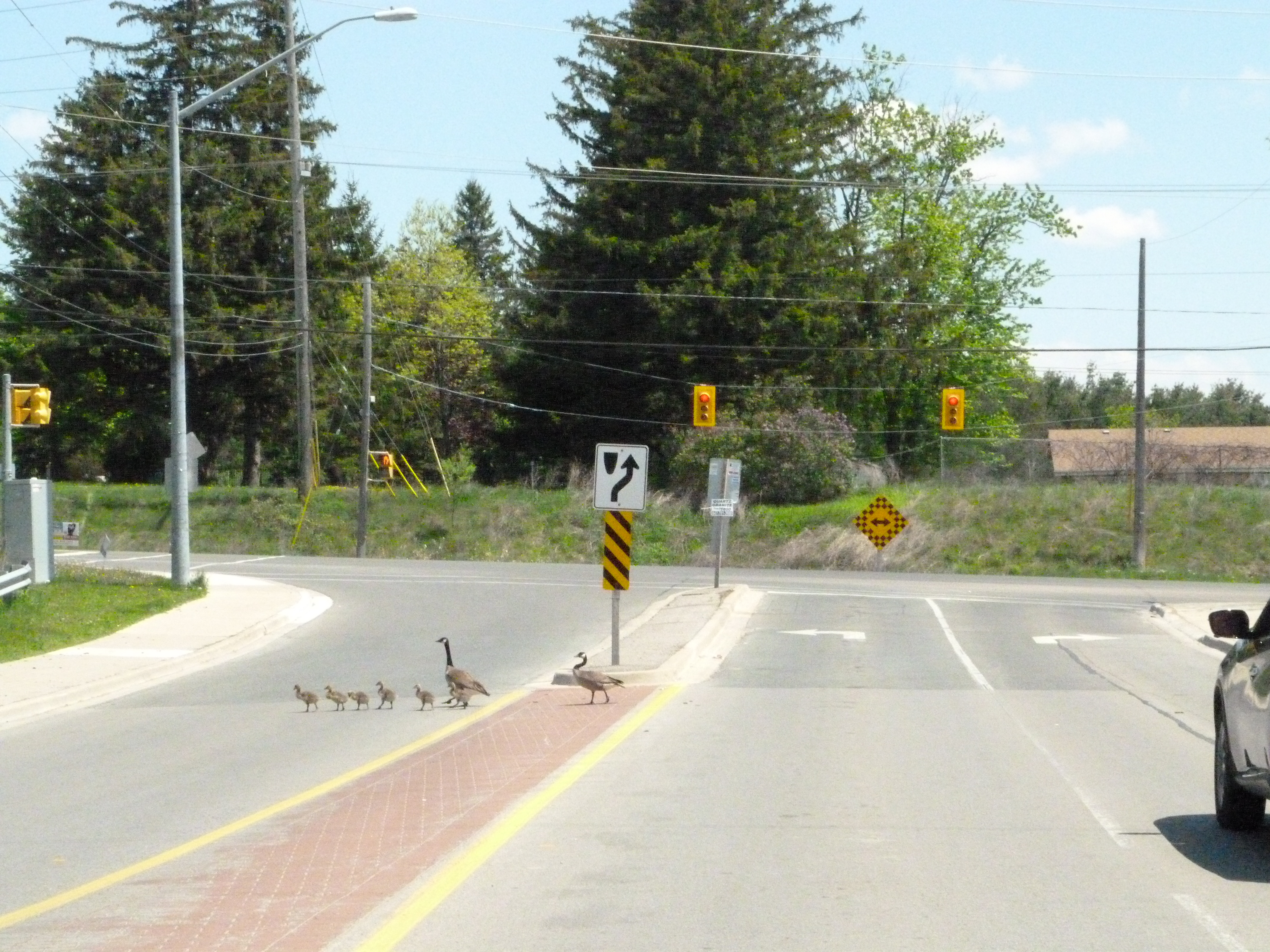 Spring 2016 family of geese walking across Jefferson sideroad Yonge-Jefferson sideroad junction